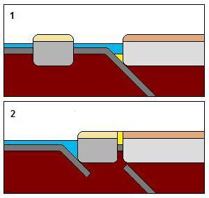 Terrane docking.